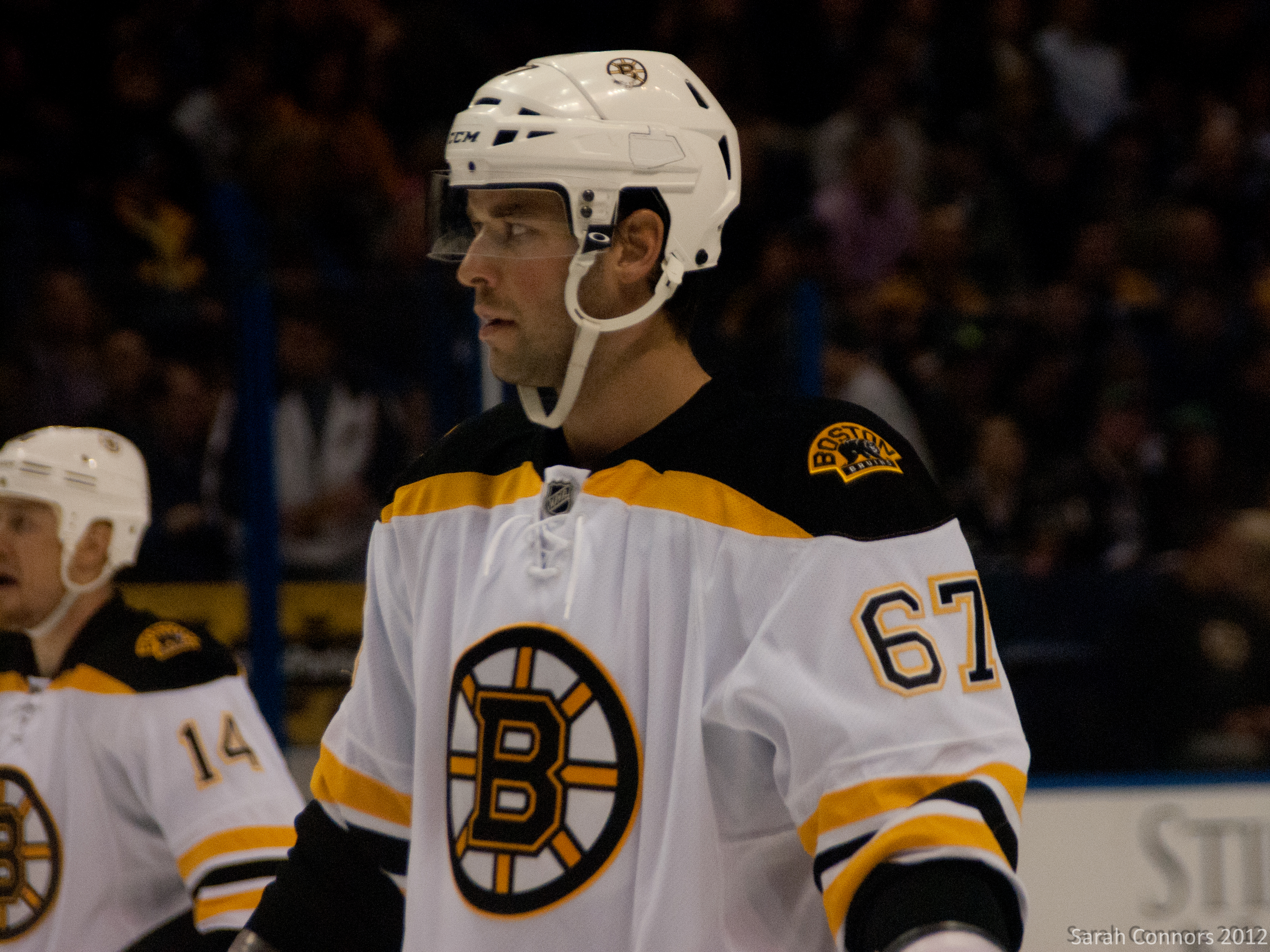 Blues vs. Bruins-9260.jpg Boston Bruins vs. St. Louis Blues in National Hockey League action. Bruins win! Glass seats! Everything is happening! Photo taken by Sarah Connors on February 22, 2012 at Downtown West, St. Louis, MO, USA with a Nikon D200.